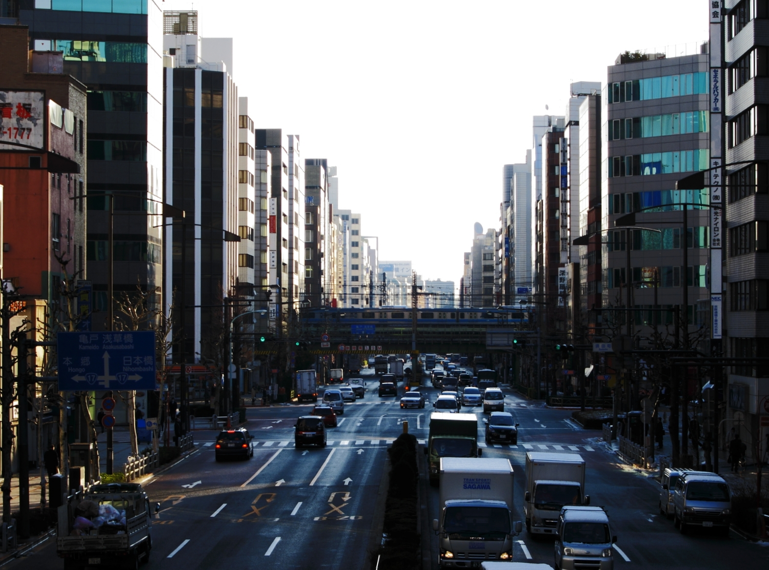 Sudachō Crossing in Sudachō, Tokyo, Japan.